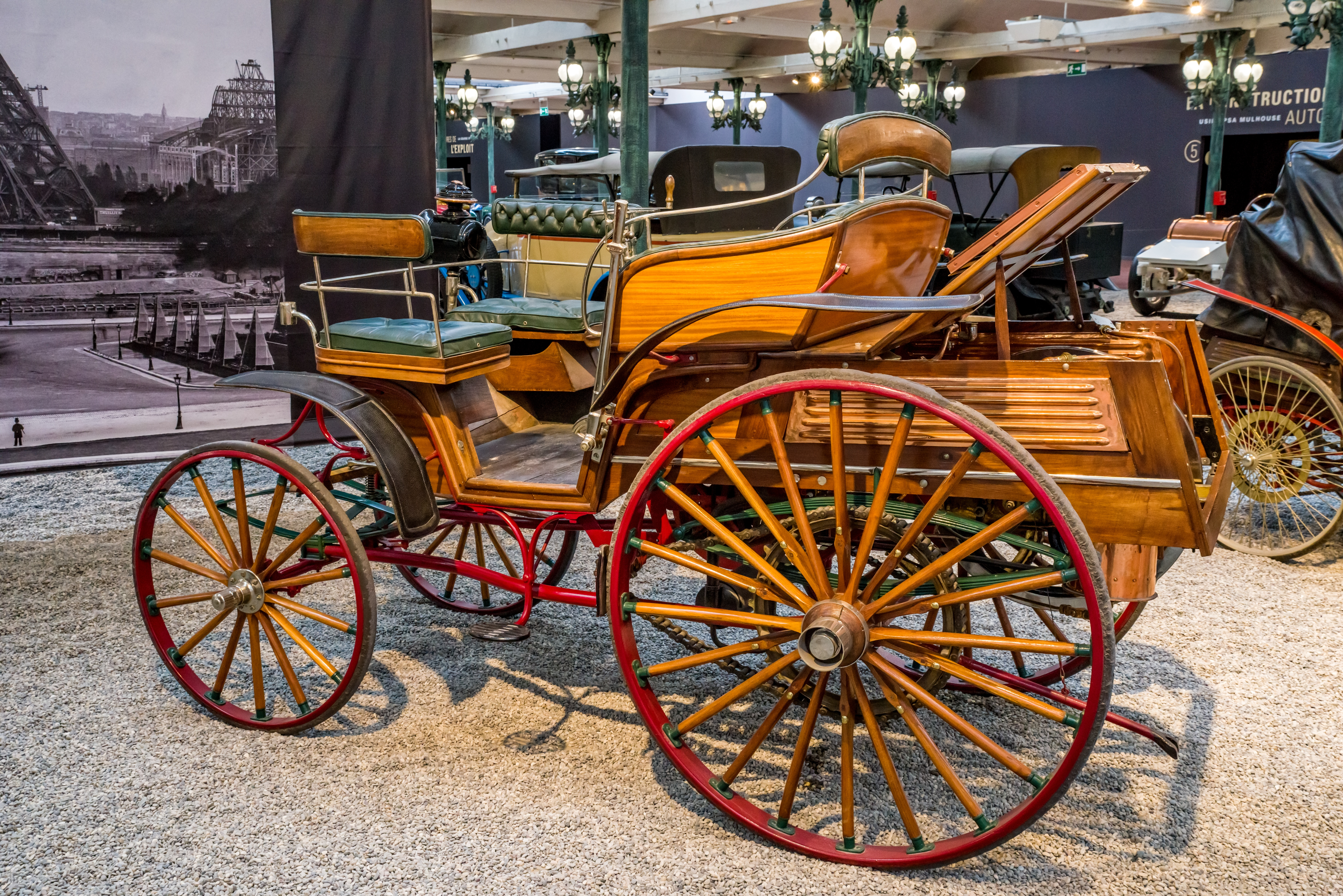 pictures from the Cité de l’Automobile – Musée National – Collection Schlump in Mulhouse, France ptictures from the 10. may 2018